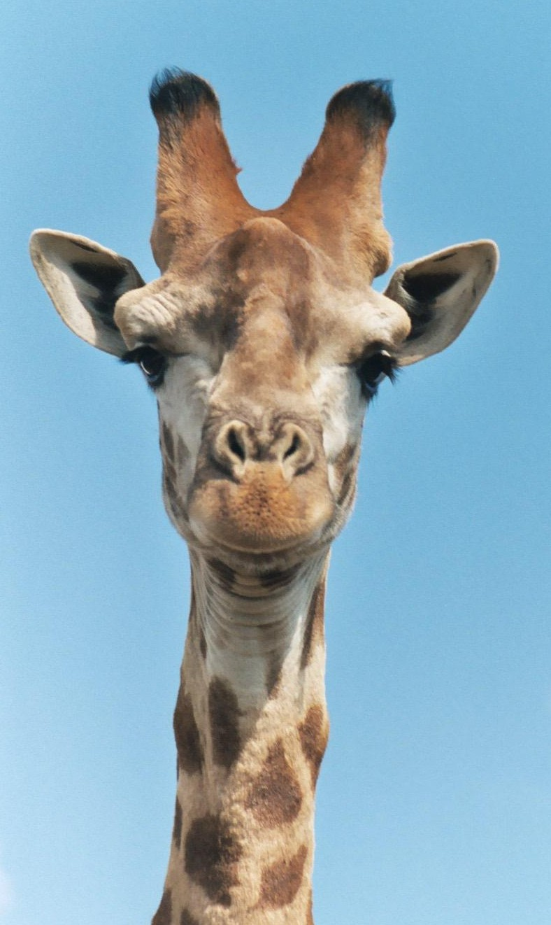 A giraffe in South Africa